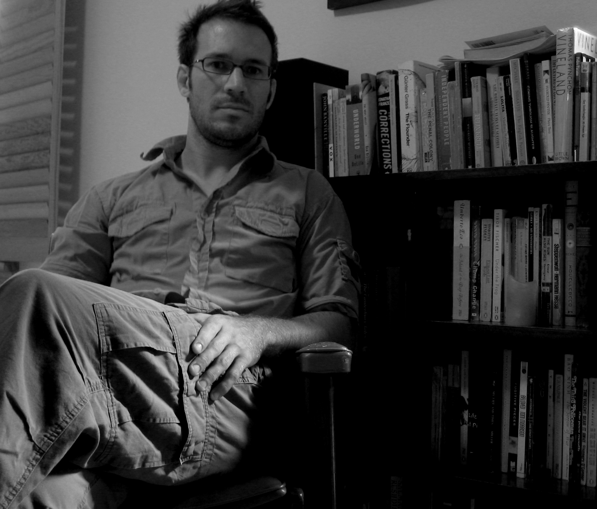 Self portrait of Hugh McGuire, founder of LibriVox; for a Wikinews interview.